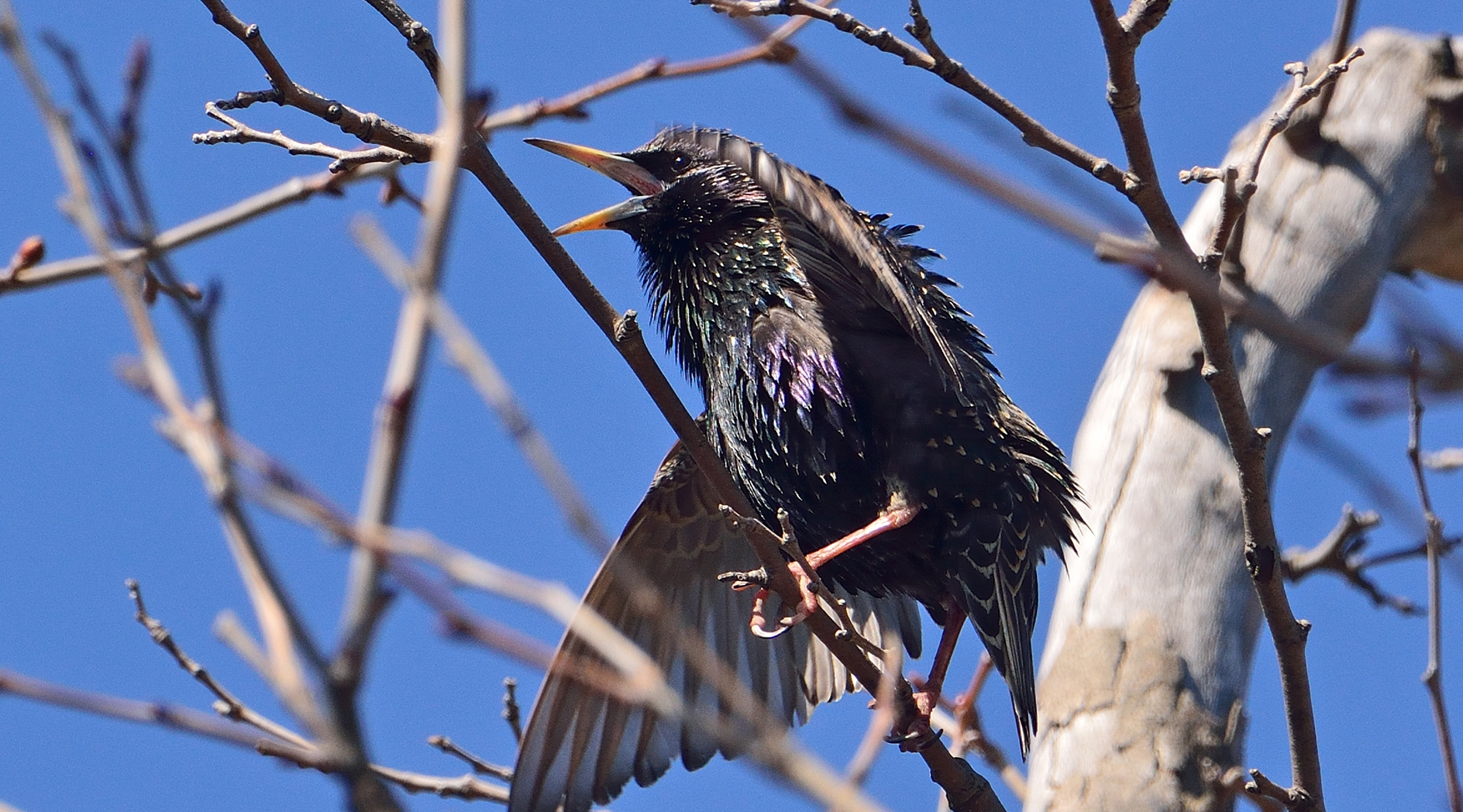 Common Starling Sturnus vulgaris singing, Spring Creek Park, New York, USA.